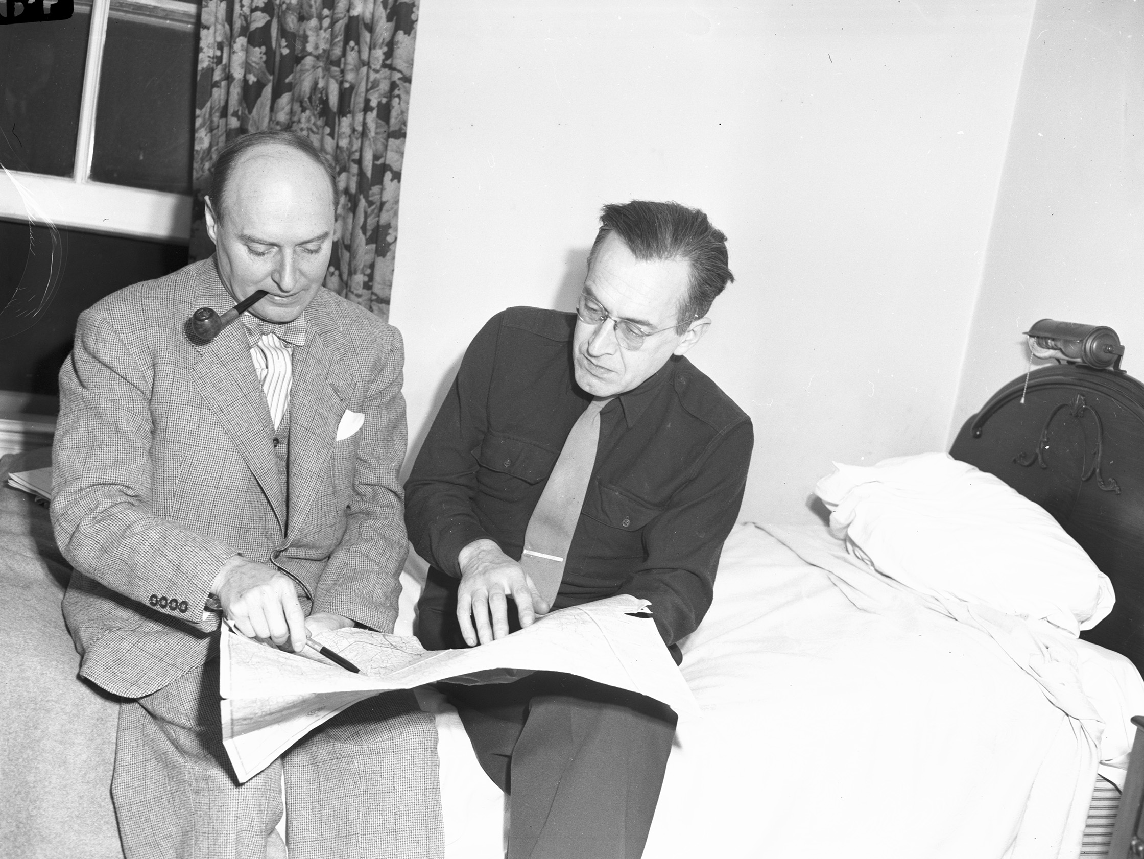 Getting acquainted with the United States again after wartime duty in Europe, Gregor Ziemer, left, author and lecturer, and F. R. Buckley, novelist and short-story writer, study a map to find a highway from Fort Worth, Texas, to Wichita Falls, Texas. Ziemer will lecture at Colonial Country Club. The men are sitting on a bed. Mr. Zeimer is wearing a tweed suit and is smoking a pipe. Mr. Buckley is wearing a dark colored collared shirt, a necktie and trousers.